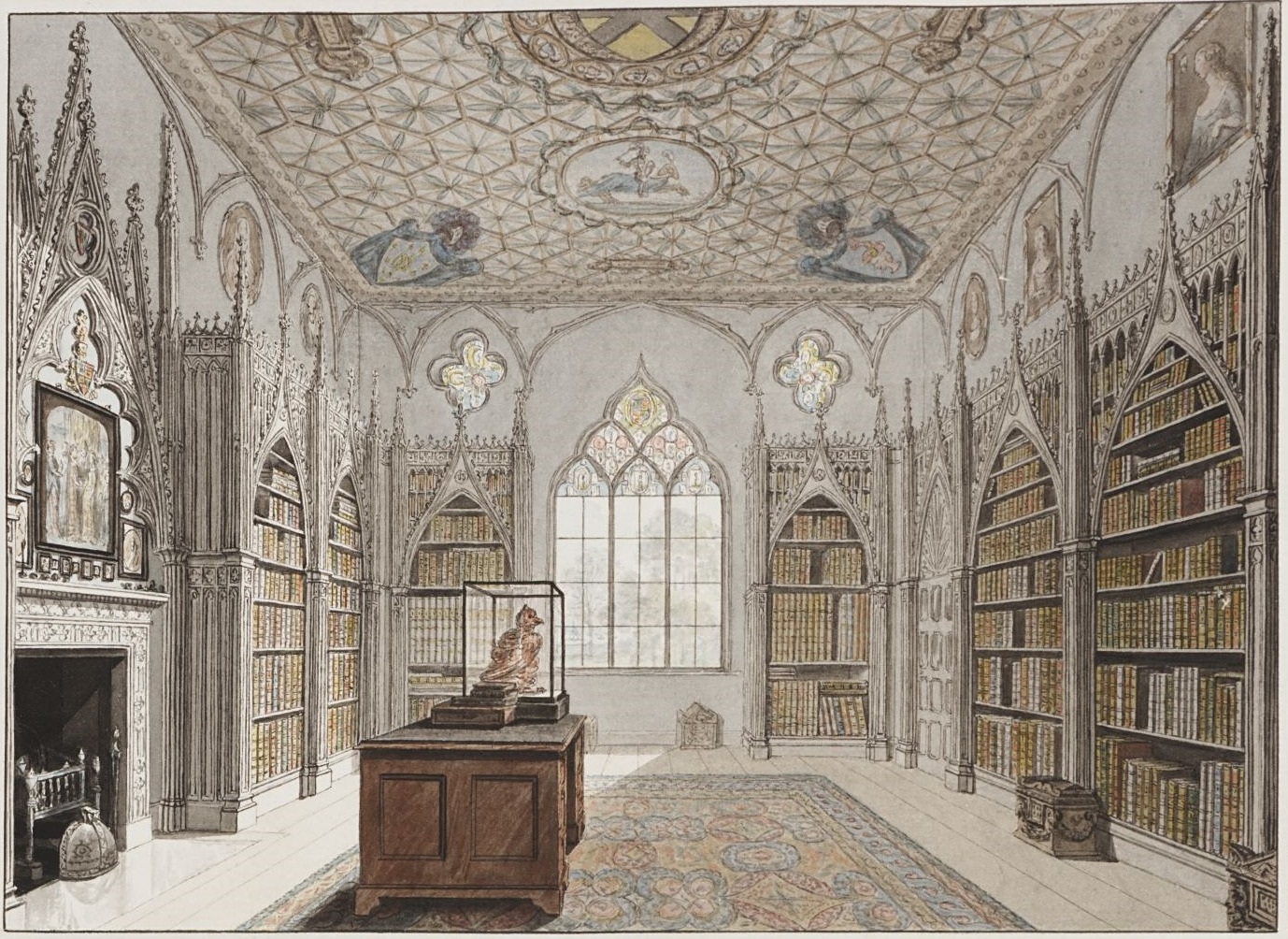 The library at Strawberry Hill